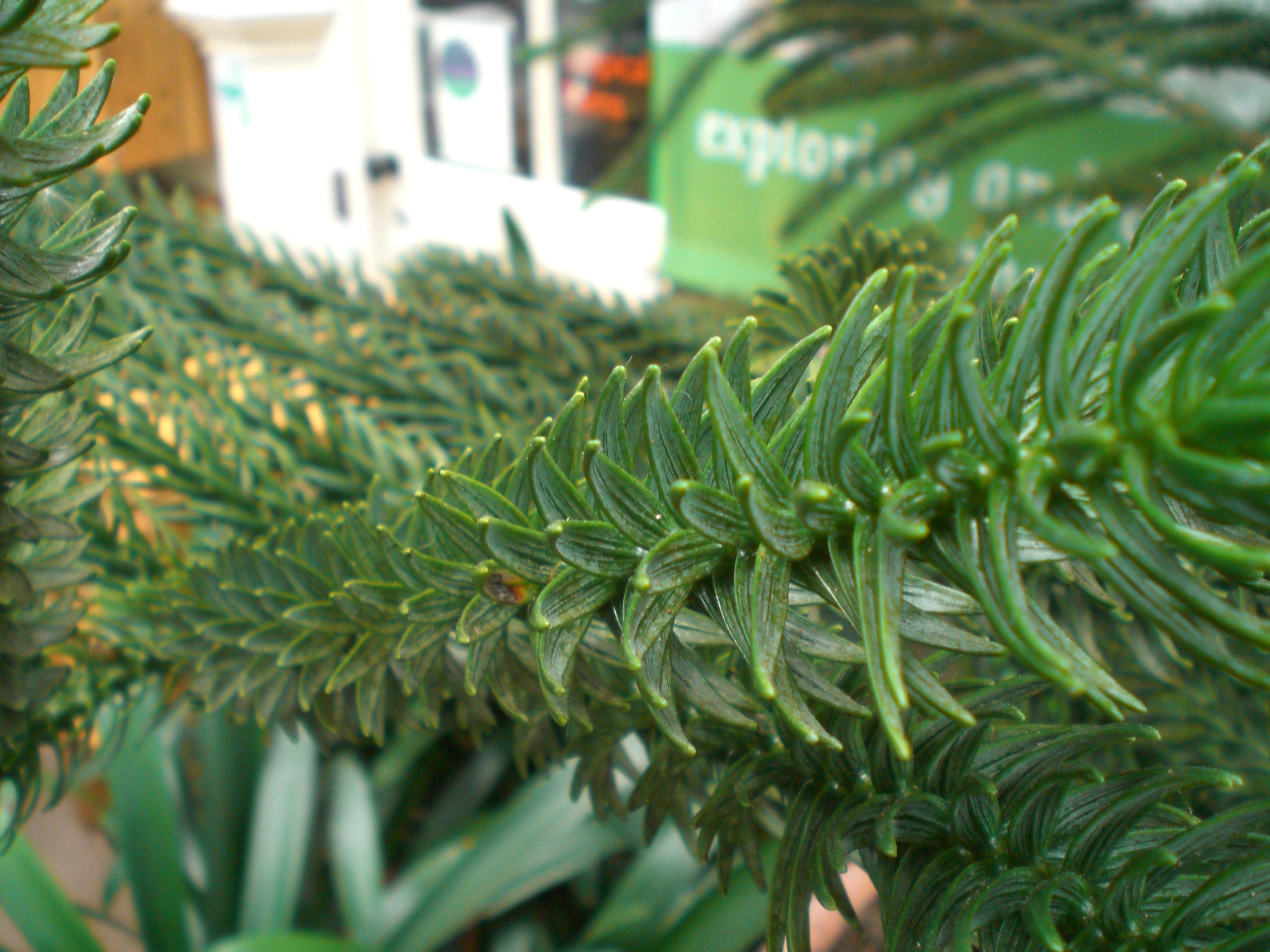 situated in the Royal Botanic Garden Edinburgh